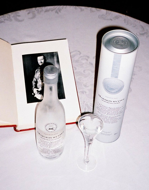 A bottle of Marskin Ryypy, a "snaps" specially composed for Finland's marshal Mannerheim during World War II and still produced according to a secret recipe.